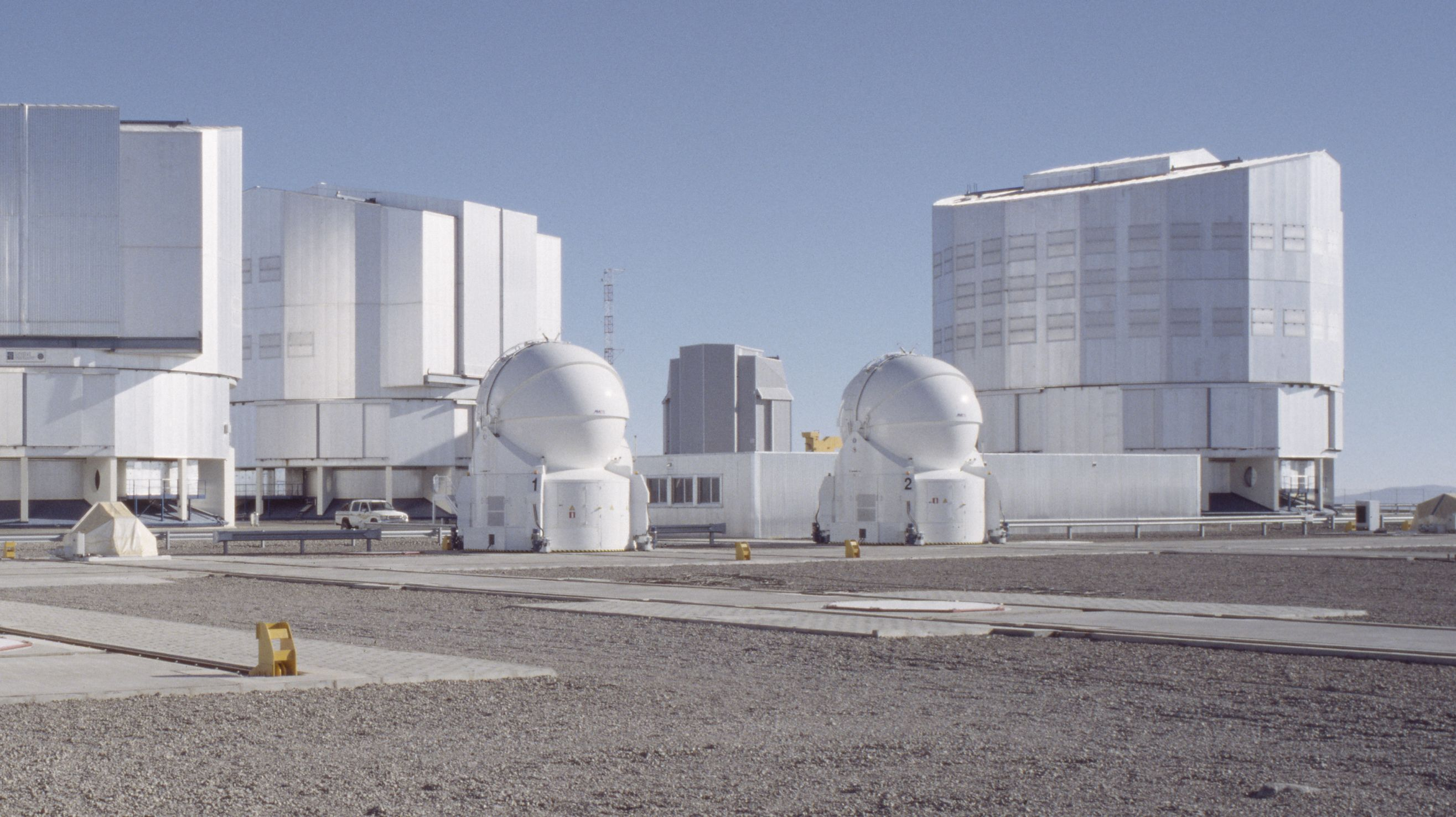 smallest view of VST inside VLT telescopes at Cerro Paranal, Chile